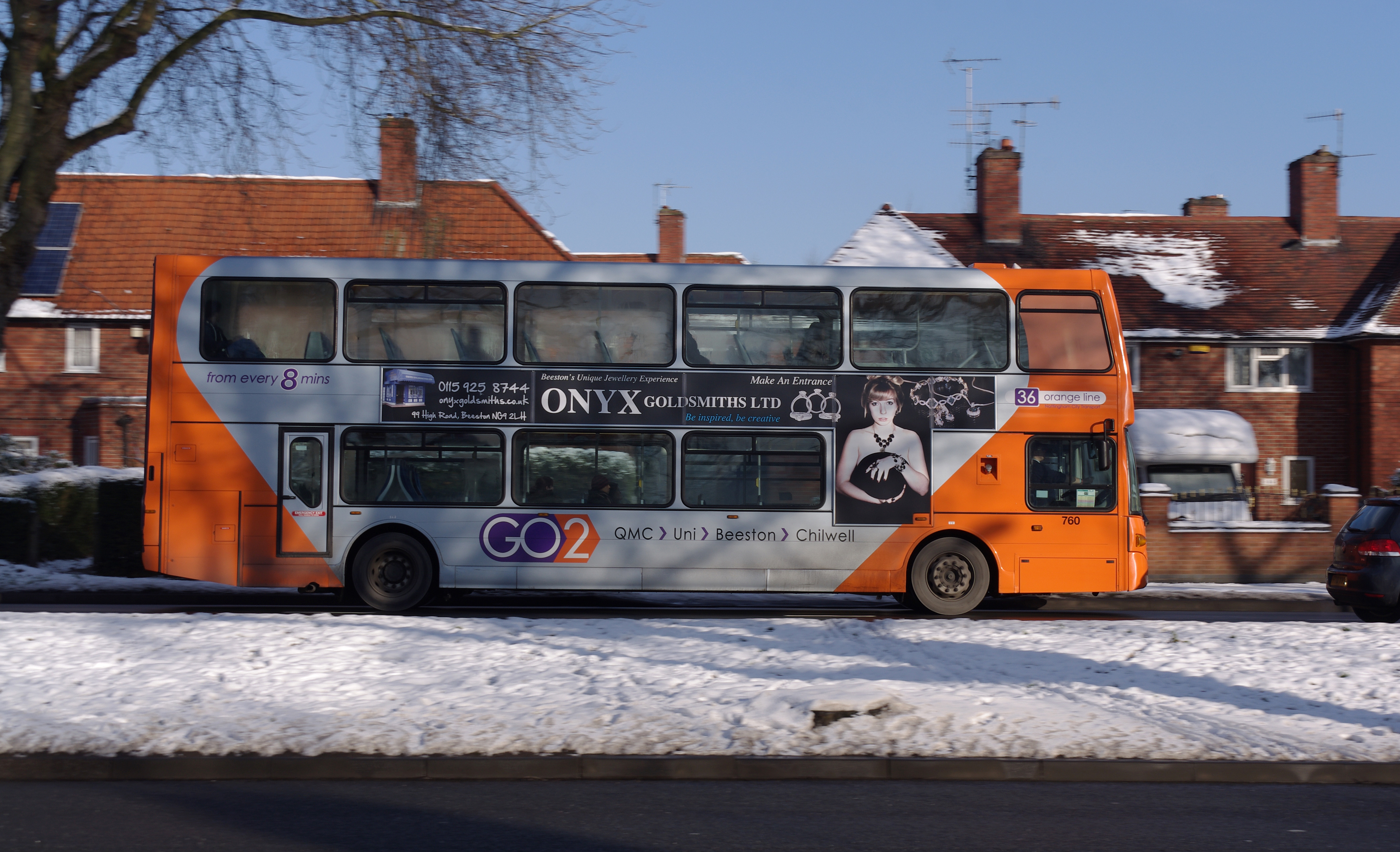 A Nottingham City Transport bus going south along the A6464 Woodside Road in Nottingham, on route 36 service from Nottingham Victoria to Chilwell. The bus is a Scania N270UD with East Lancs OmniDekka body, registration mark YN07 EYY, fleet number 760.